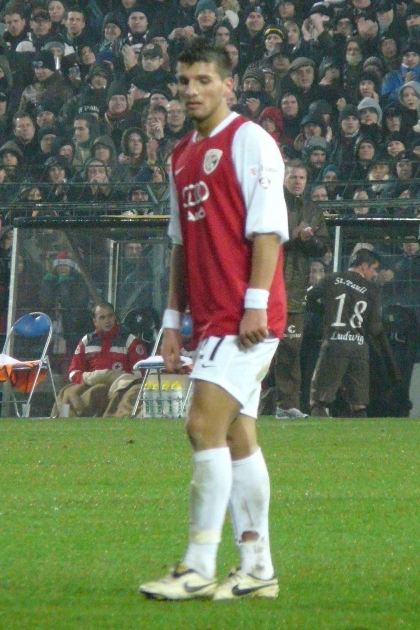 Valdet Rama as Player from FC Ingolstadt